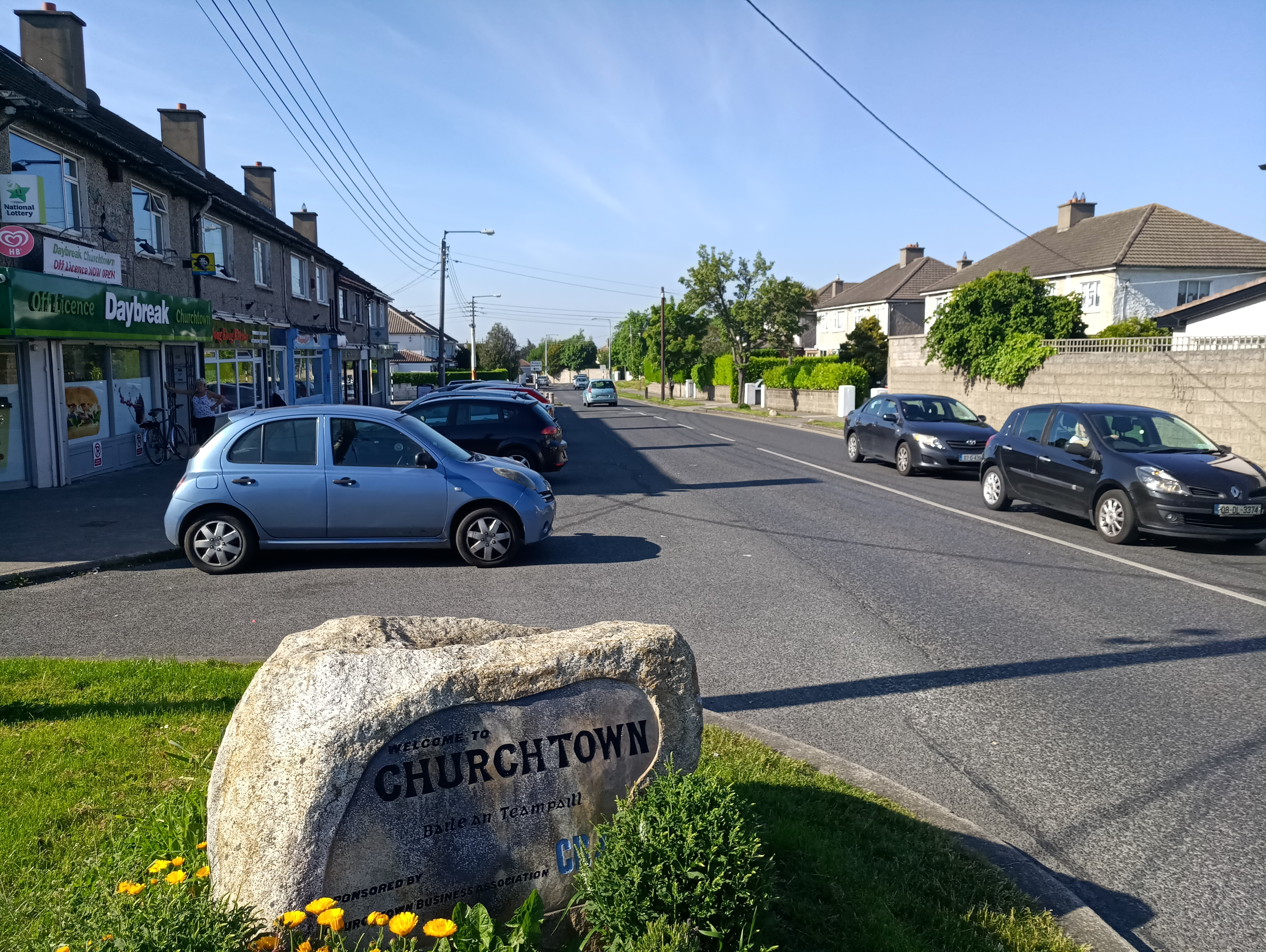 中文（中国大陆）: Churchtown, Dublin 14